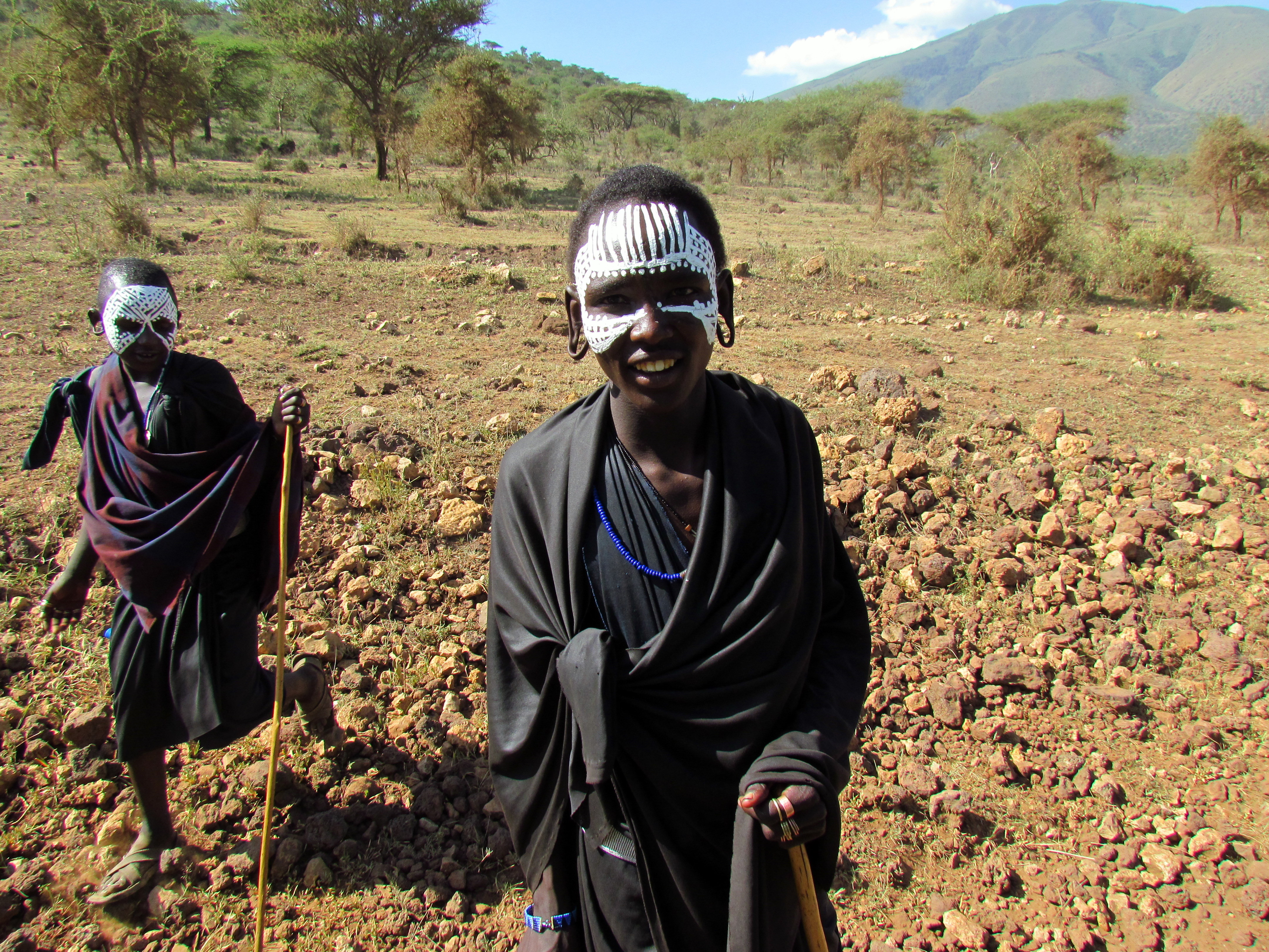 Maasai Warriors, Ngorongoro crater, Tanzania, Africa